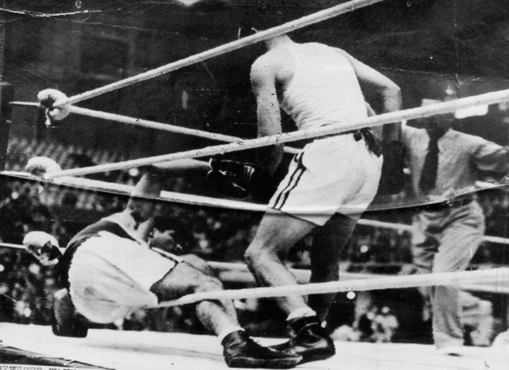 Boxer, Adrian Holmes, knocks an opponent to the mat in the London Olympics, 1948